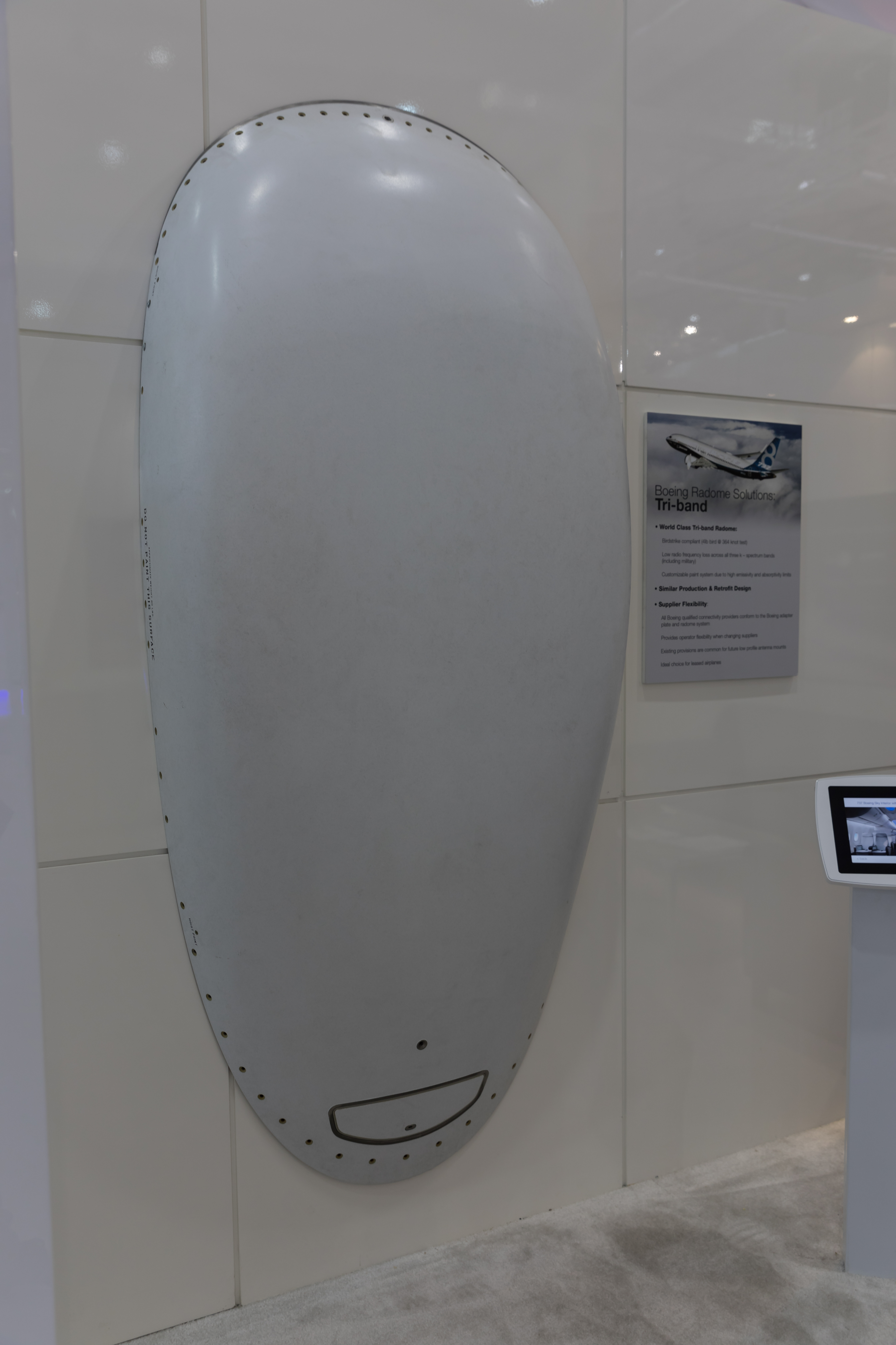 Passenger Experience Week 2018, Hamburg